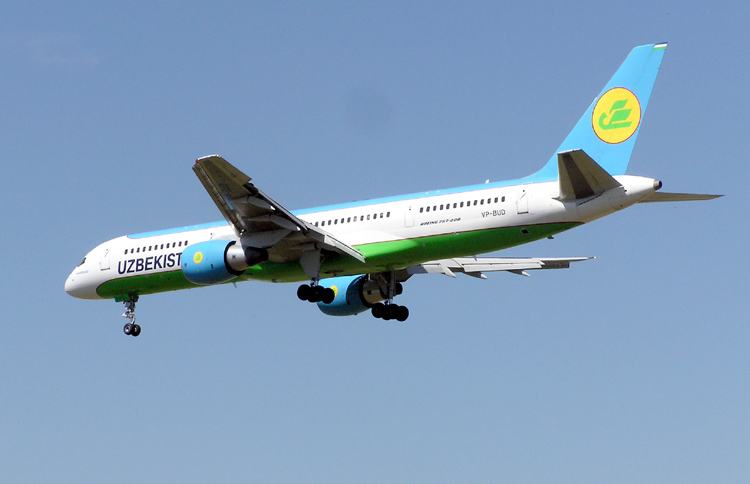 Uzbekistan Airways Boeing 757-200 (VP-BUD) landing at London (Heathrow) Airport.